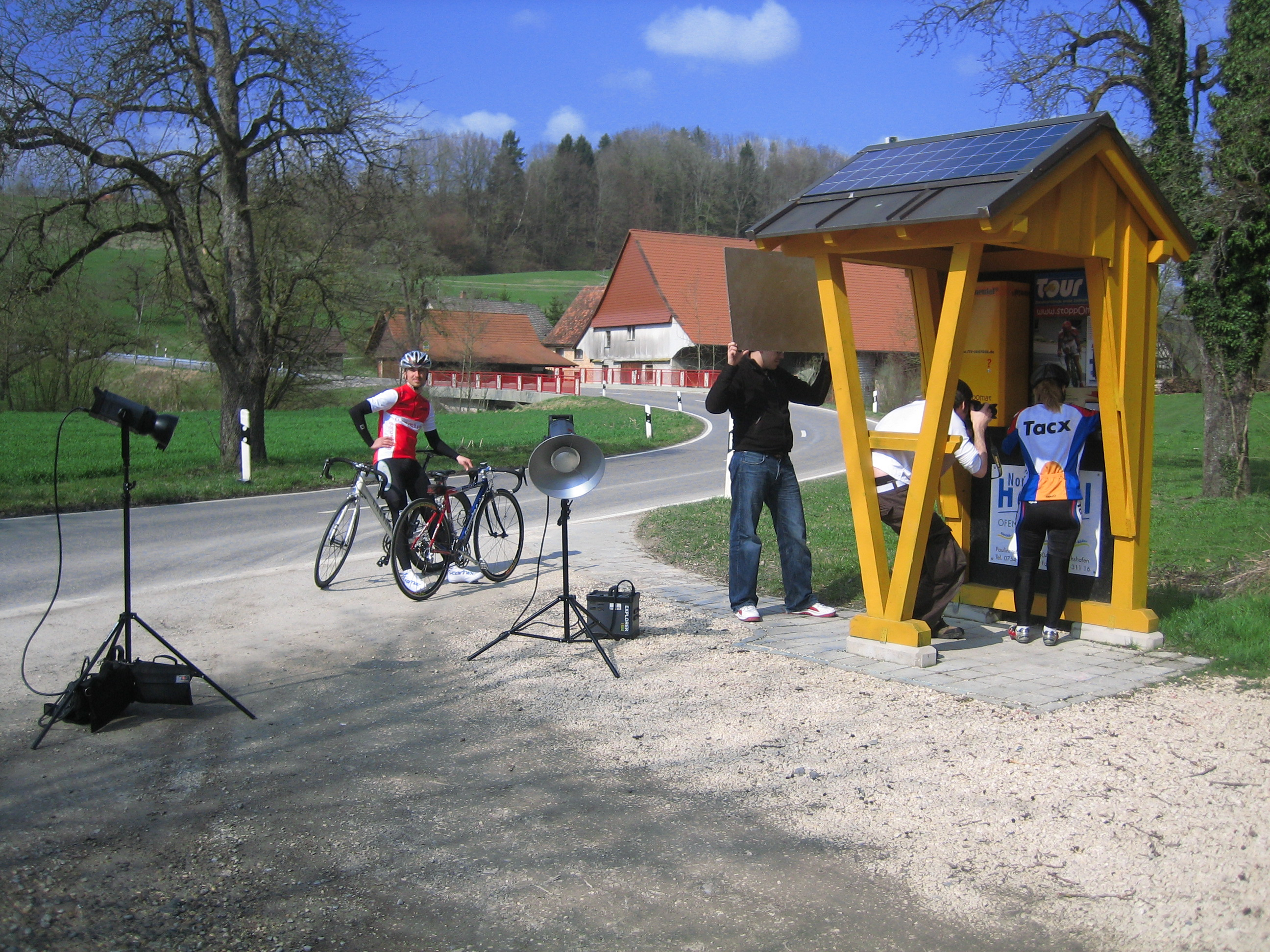 Start house at the first plant in Germany / Urnau / Bodenseekreis